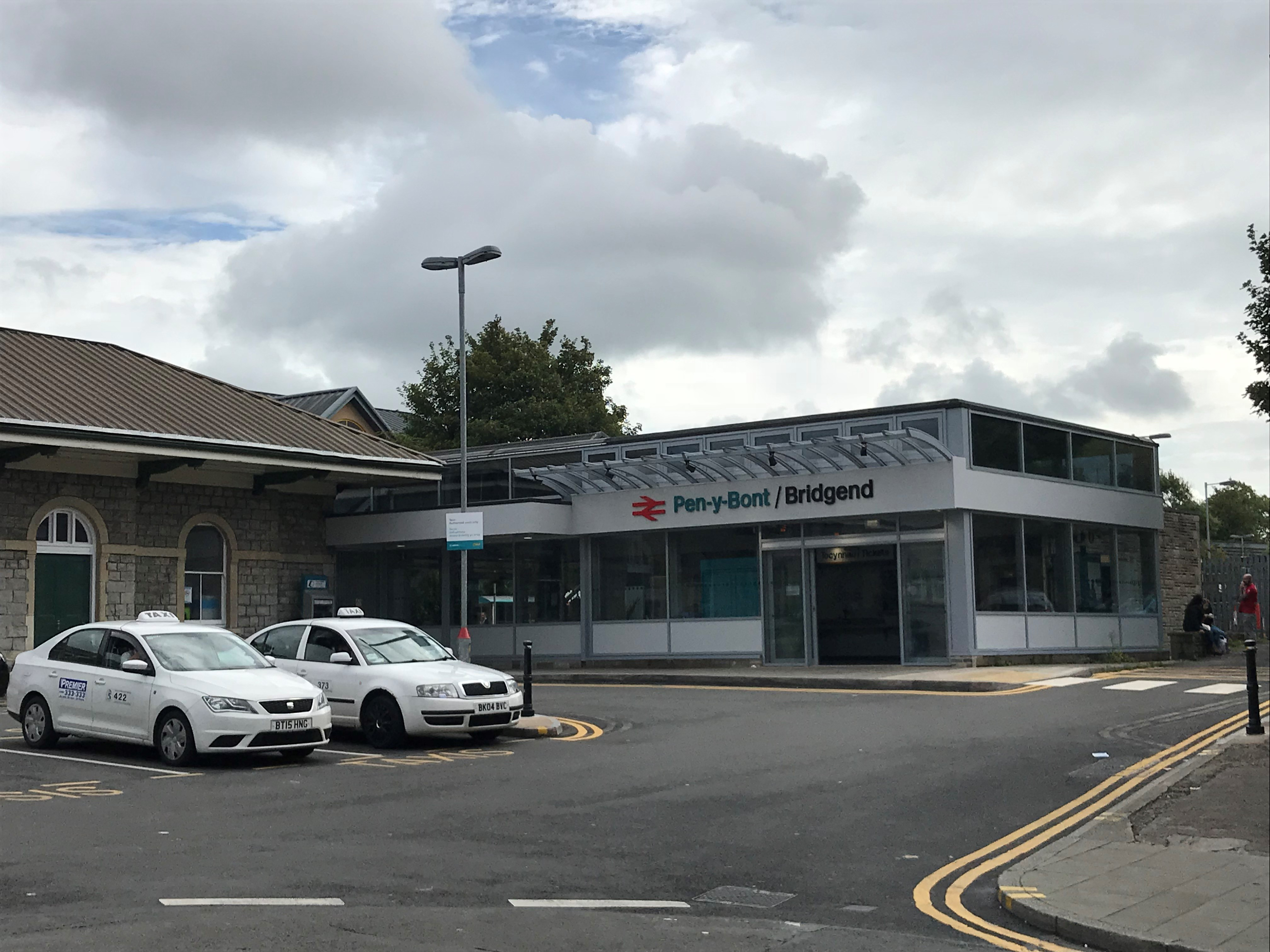 Bridgend Railway Station, Sept 2018